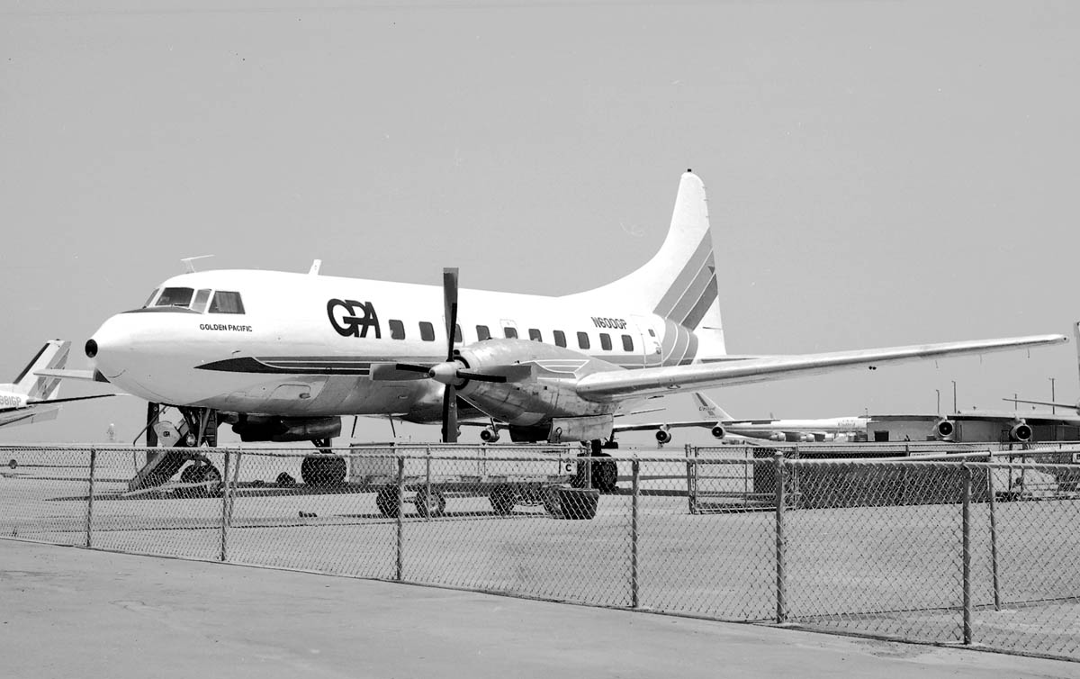 N600GP at San Francisco in June 1972.